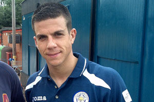 Picture of Bruno Berner.